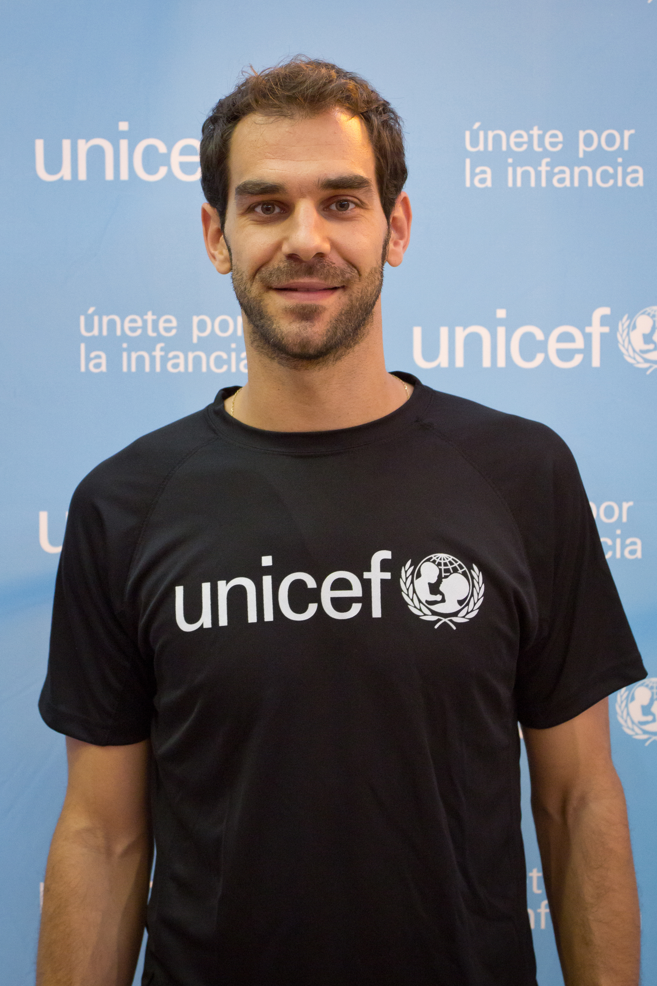 Spanish basketball player José Manuel Calderón as new Unicef goodwill ambassador.